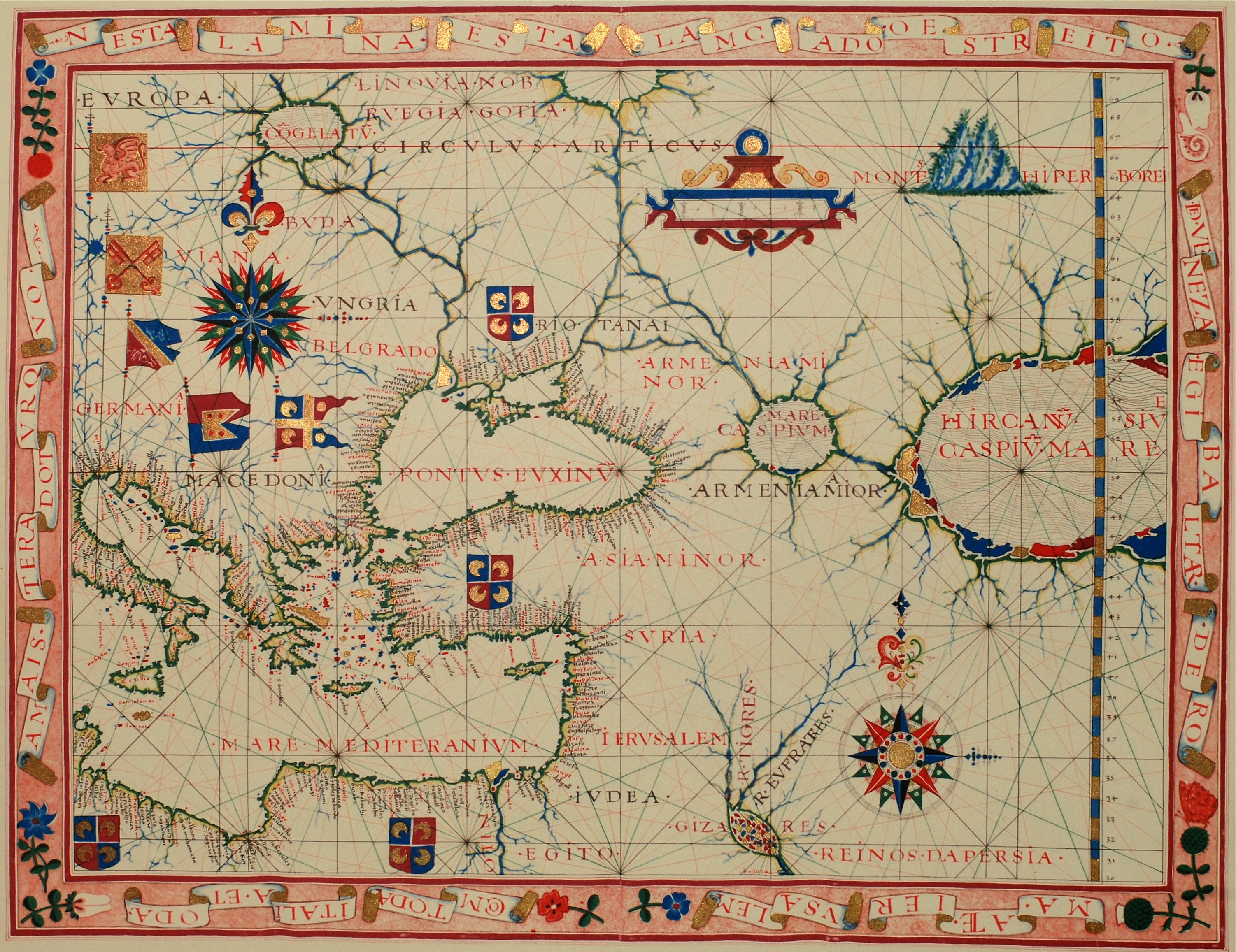 Nautical chart of Portuguese cartographer Fernão Vaz Dourado (c. 1520 - c. 1580), part of a nautical atlas drawn in 1570 and now kept in the Huntington Library, San Marino, USA.